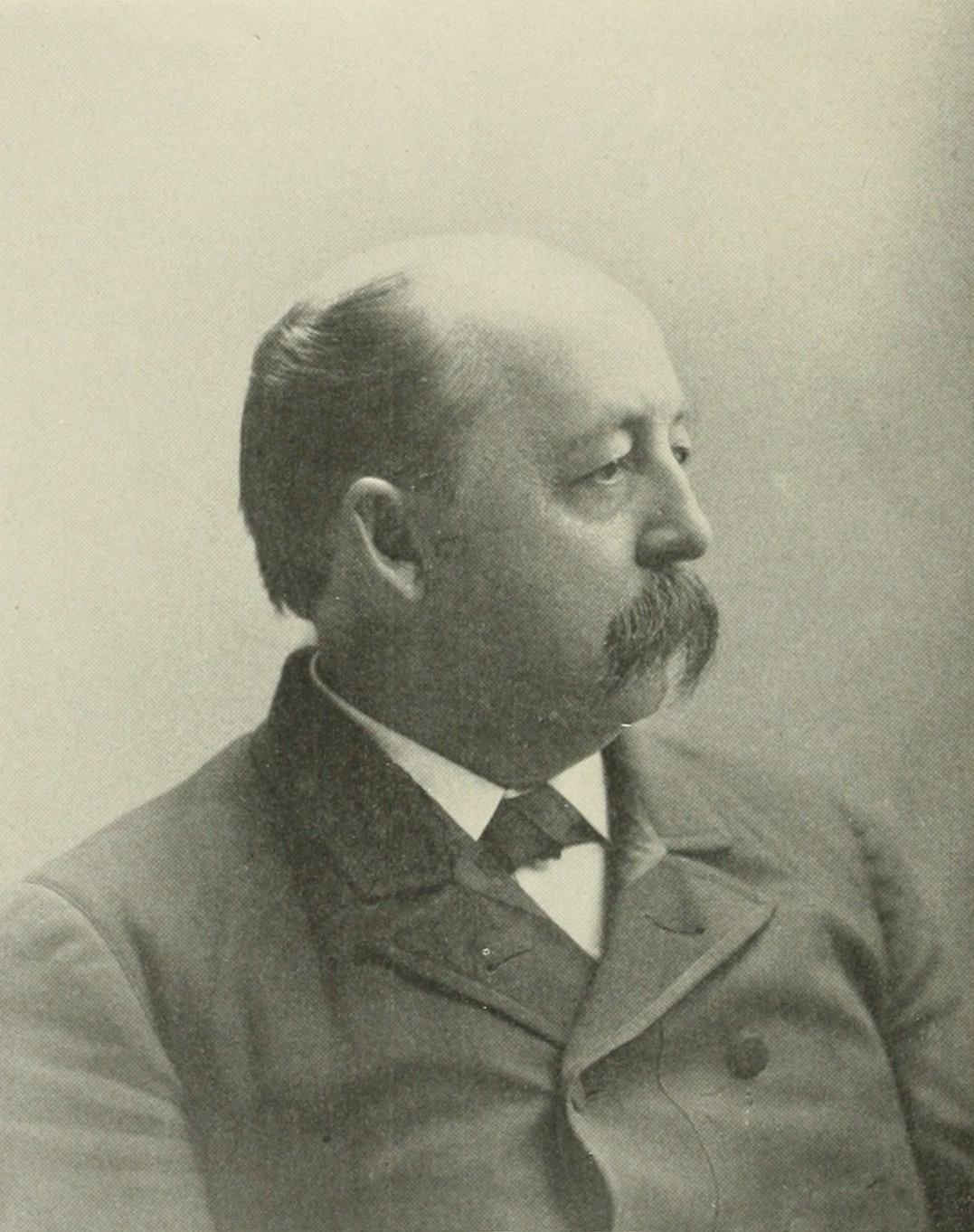 Cushman Kellogg Davis